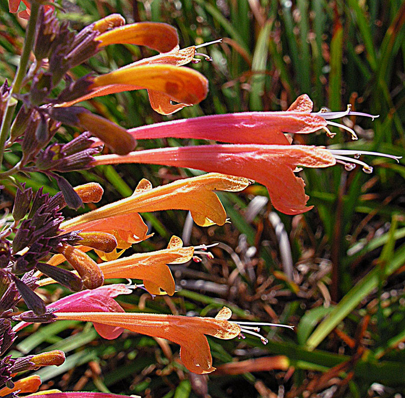 Native to southern U.S. and Mexico, and cultivated as the Orange Hummingbird Mint. Univ. of B.C. Botanical Gardens. In context at